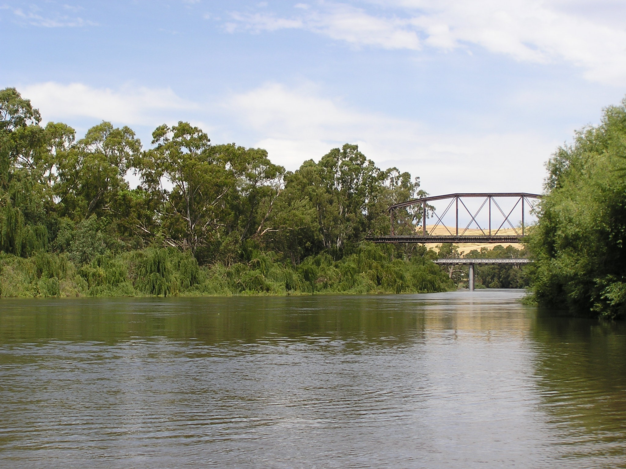 Murrumbidgee River at Gundagai, New South Wales, Australia Picture taken by AYArktos December 2005